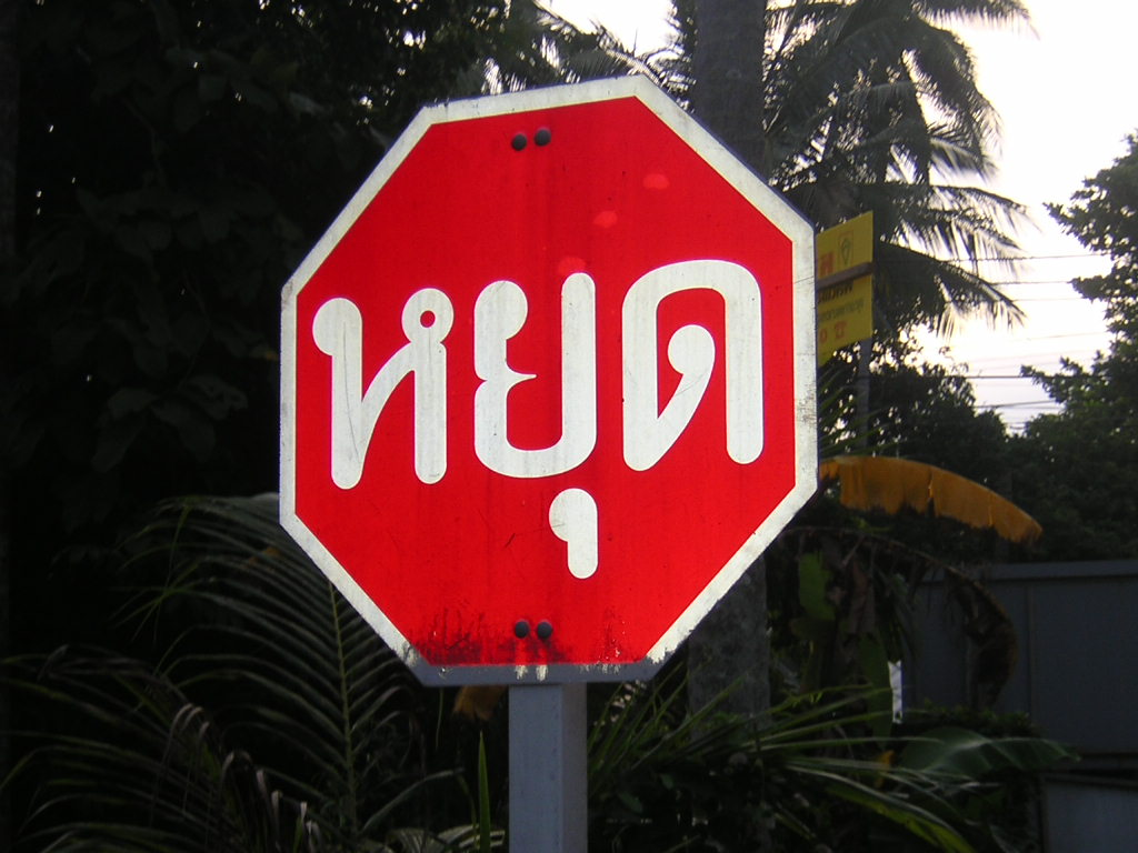 หยุด stop sign in Thaïland